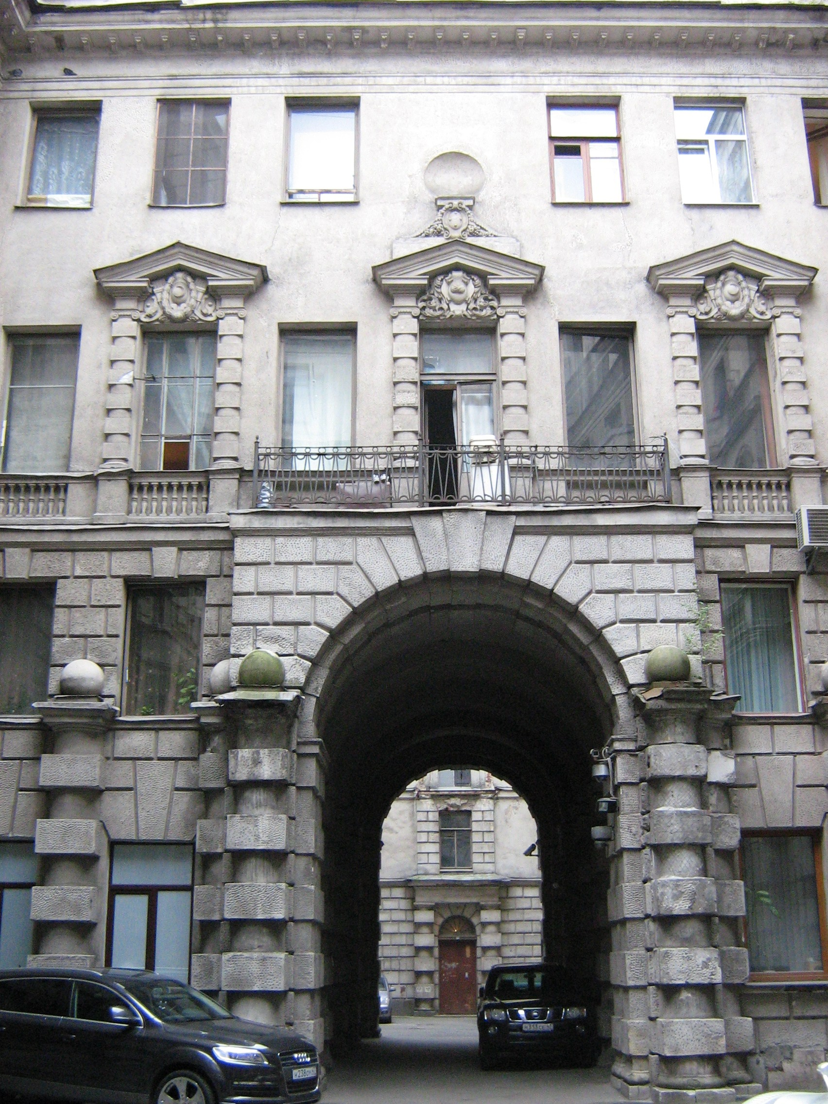 Court of the House of Emir of Bukhara (44b, Kamennoostrovsky avenue, St.Petersburg, Russia)